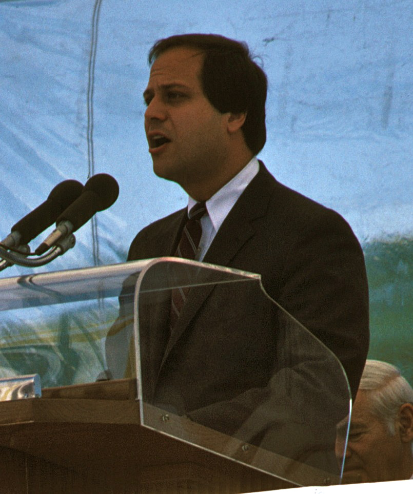 "Joseph R. Paolino, mayor of Providence, Rhode Island, delivers an address during the commissioning ceremony for the nuclear-powered attack submarine USS PROVIDENCE (SSN 719)"